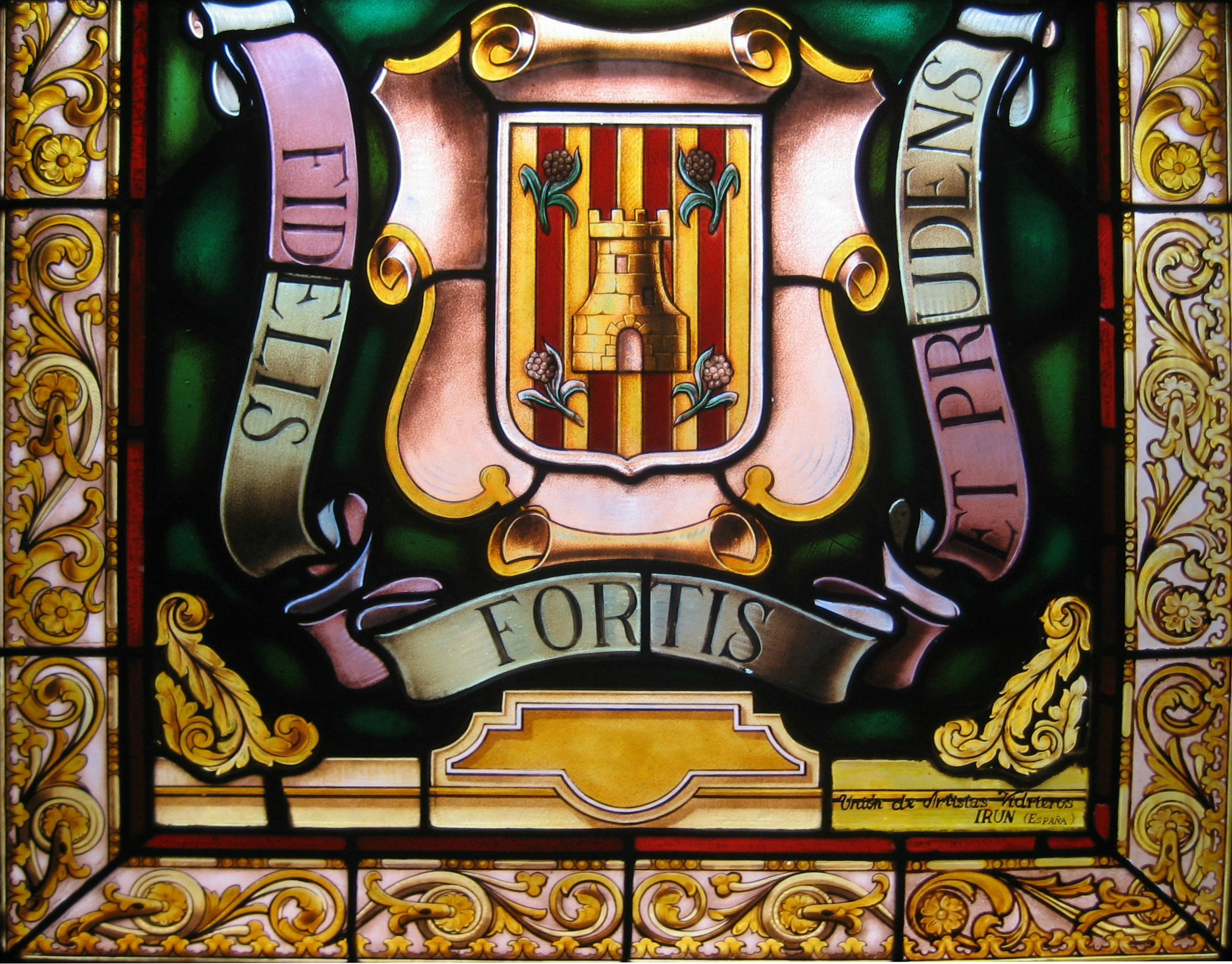 Stained glass window of the Morella Coat of Arms, in the San José de Jatibonico Church, in Jatibonico, Cuba.